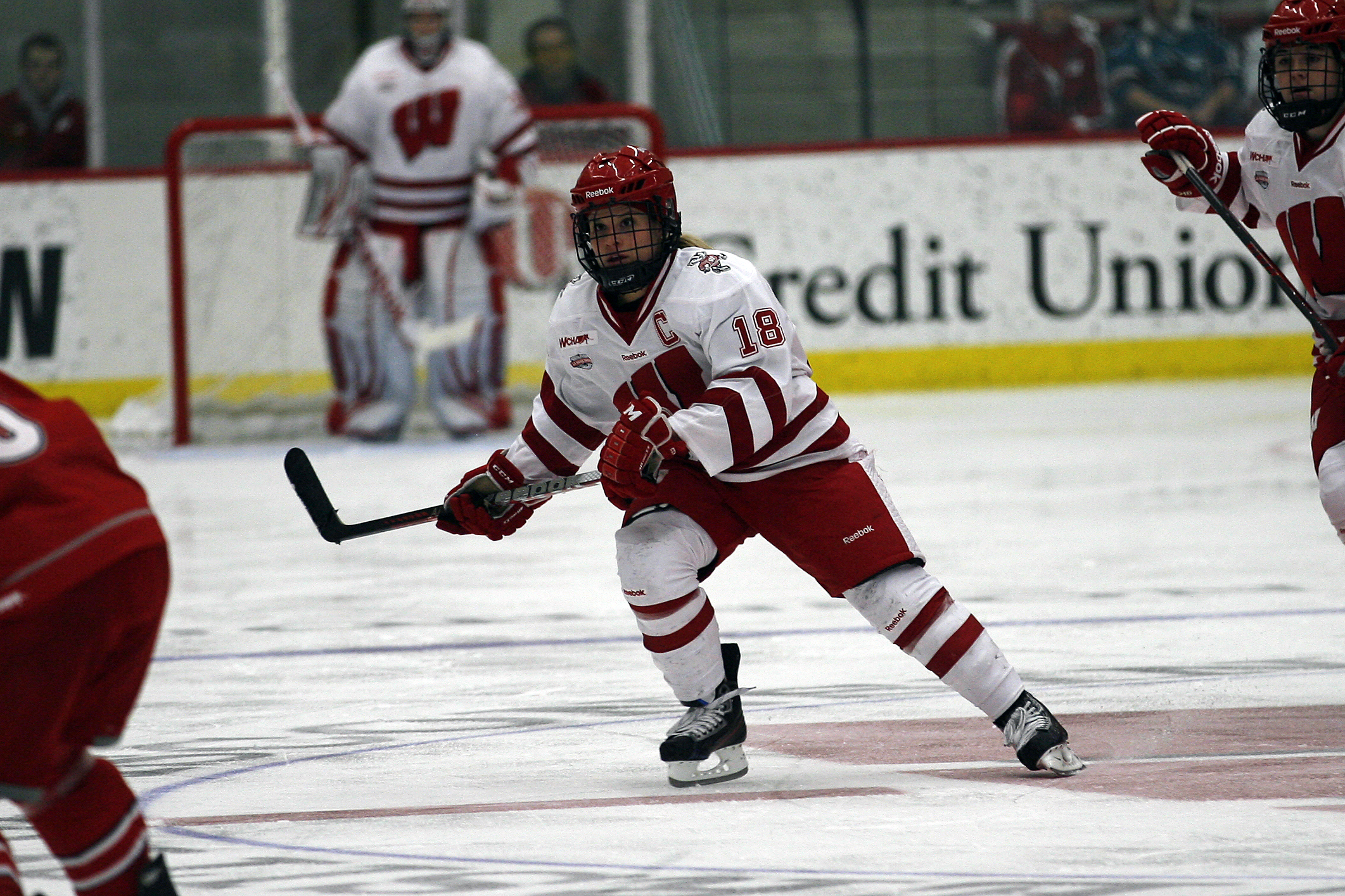 Wisconsin Badgers women's ice hockey forward Brianna Decker